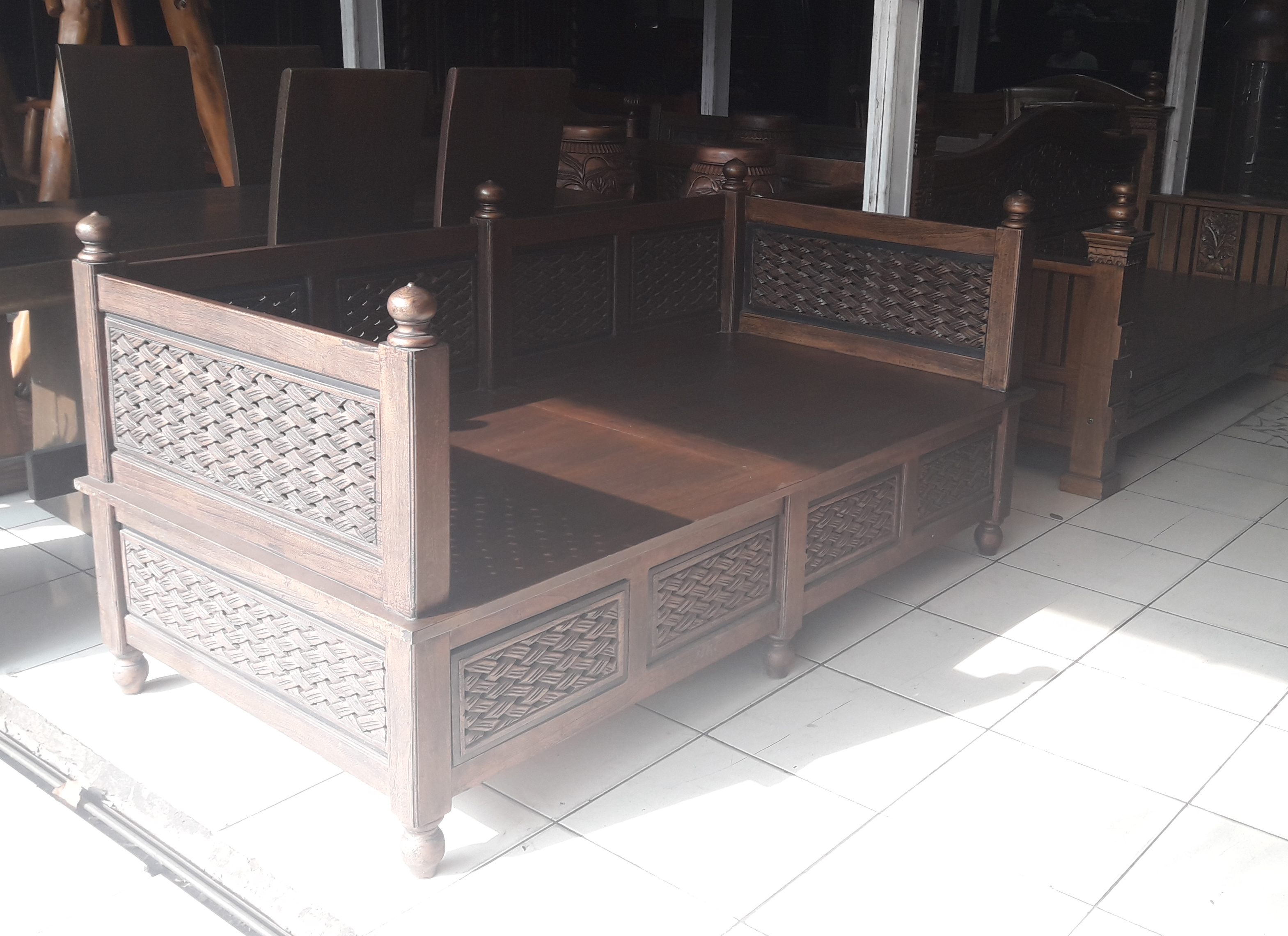 Dipan, tempat duduk orang Betawi di teras. Diadopsi dari kebudayaan Tionghoa